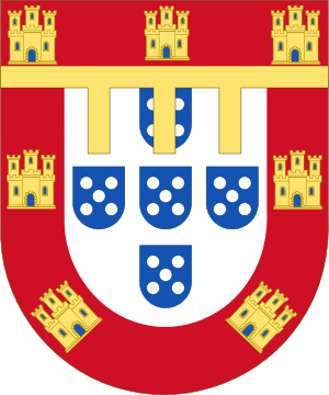 Coat of Arms of the Prince of Portugal (1481-1910) known as Prince of Brazil (1645-1822)